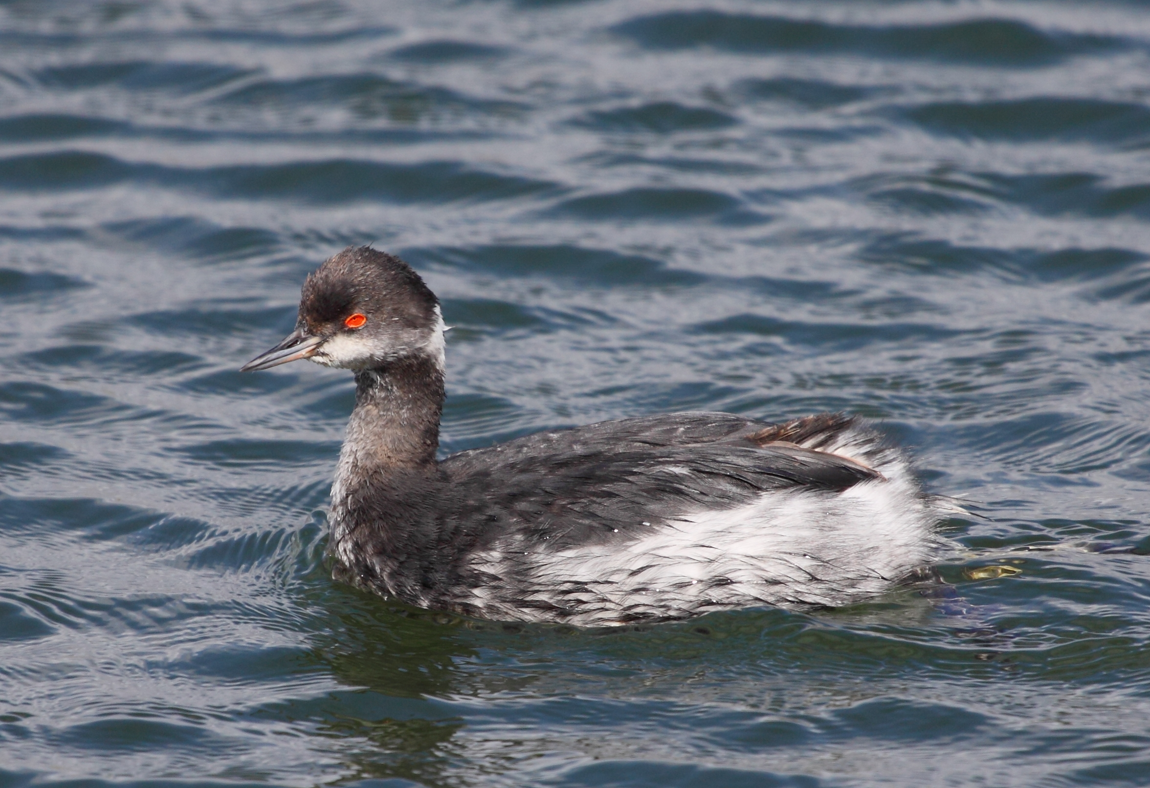 Adult Eared Grebe in non-breeding plumage (Podiceps nigricollis californicus)